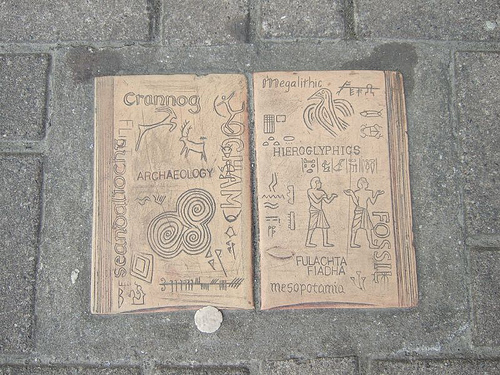 my photo